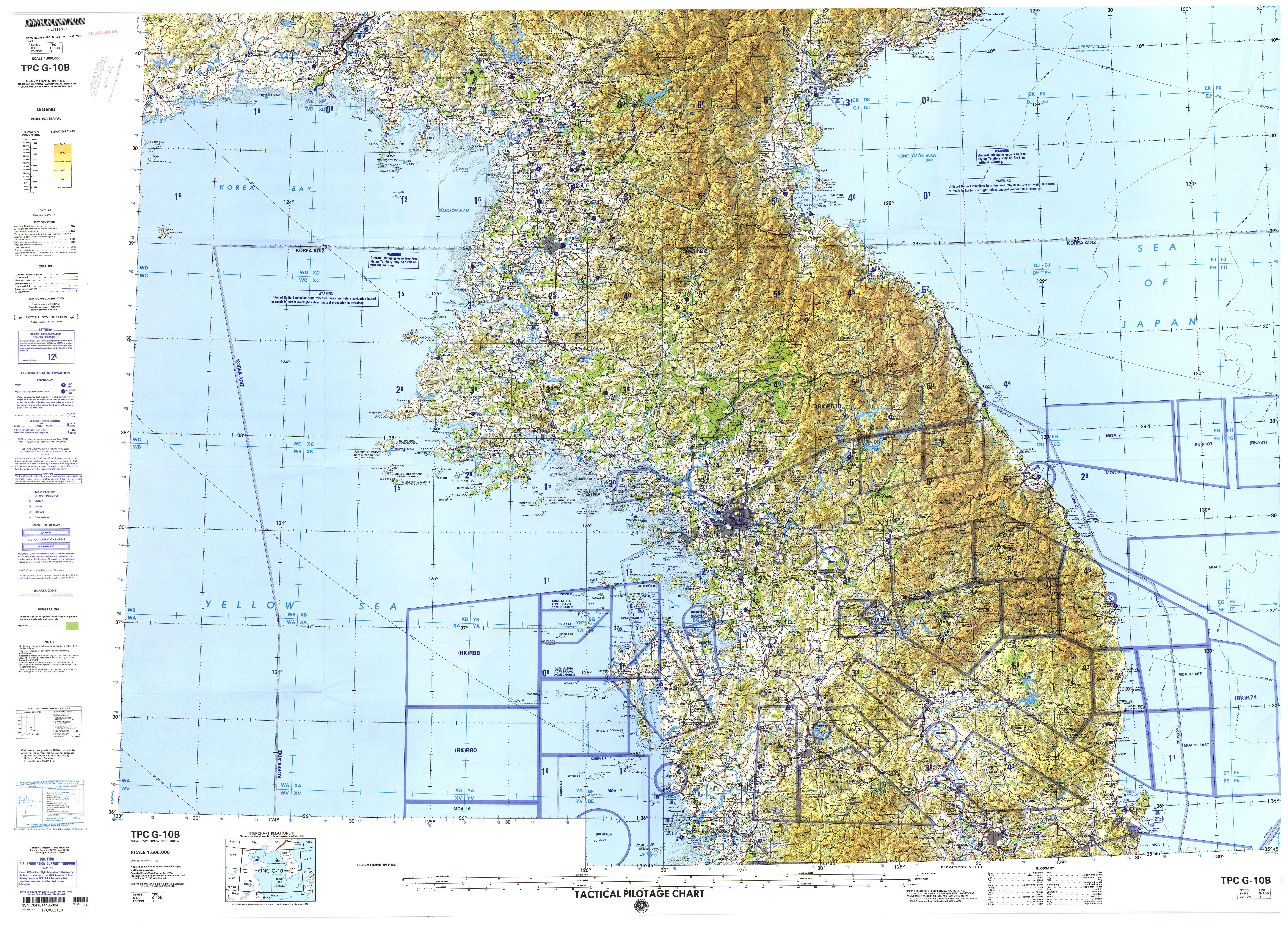 Tactical Pilotage Chart Series - World 1:500,000 Scale